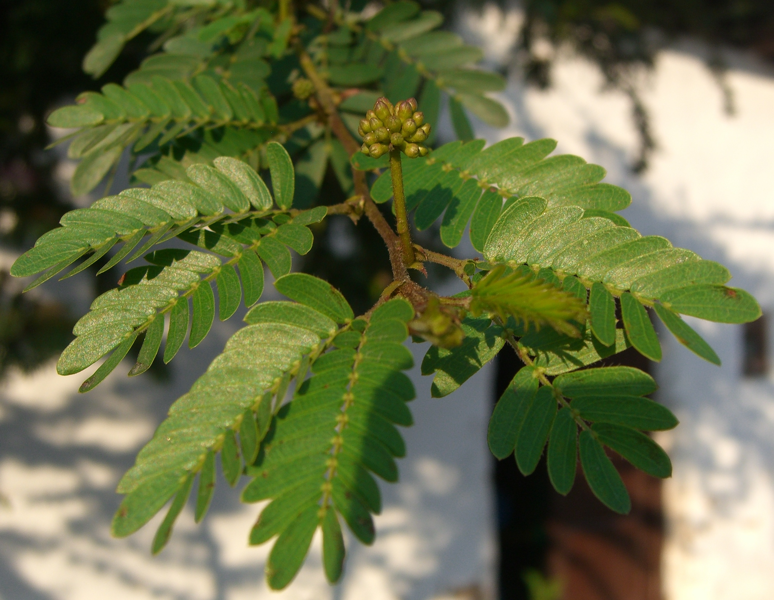 Please report references to .